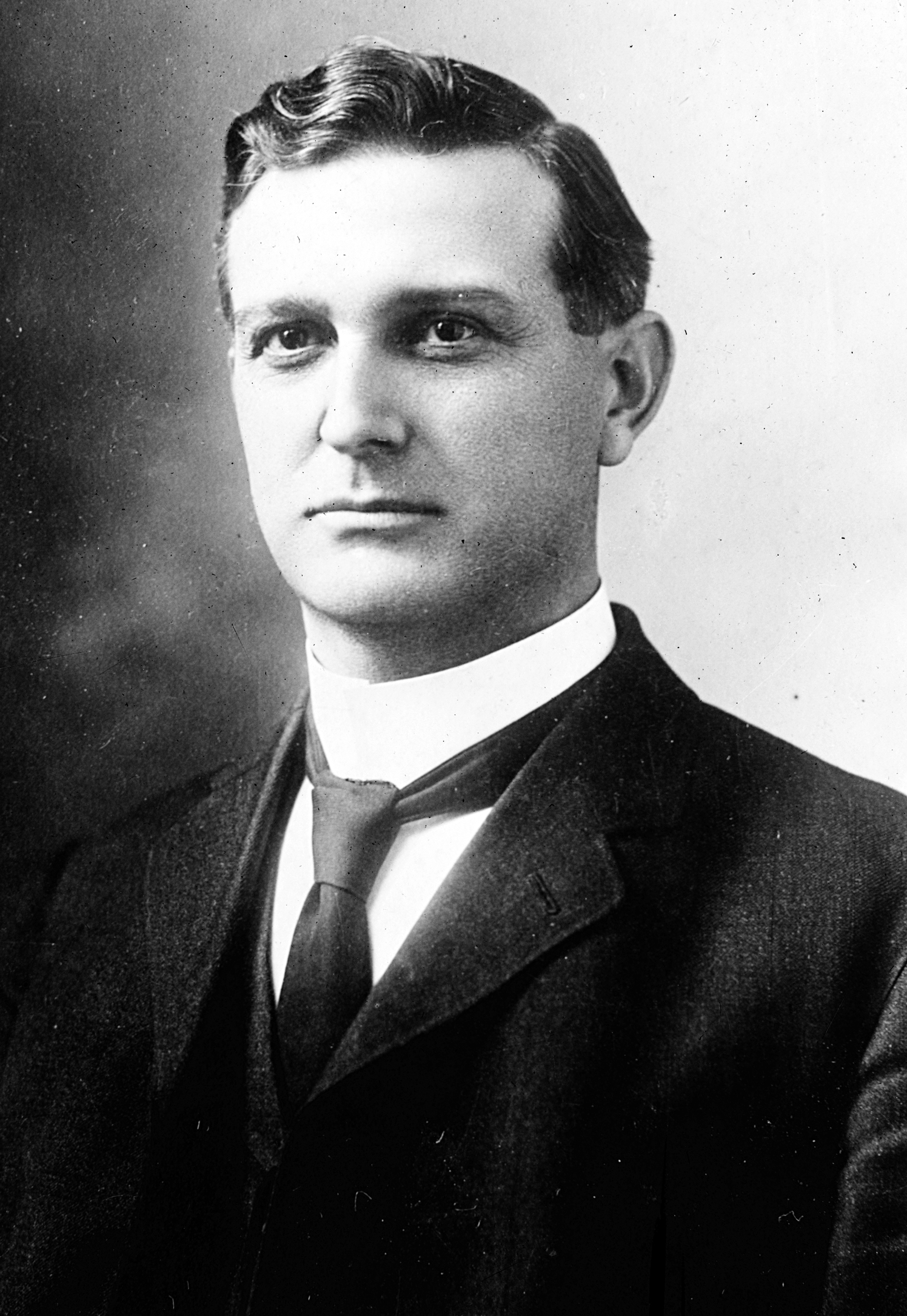 William Walton Kitchin, US Representative from North Carolina and Governor of that state